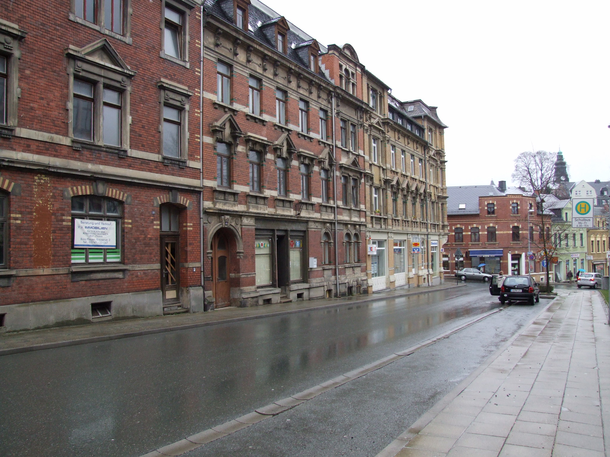 Adorf, in April 2008. Substantial late 19th century buildings in Lessingstraße (from the left: Lessingstraße 14, 12 and 10; Schulstraße 9)